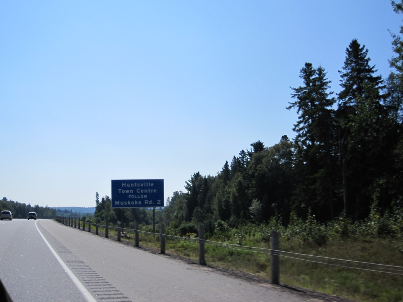 Autobahn Nr. 11 in Muskoka